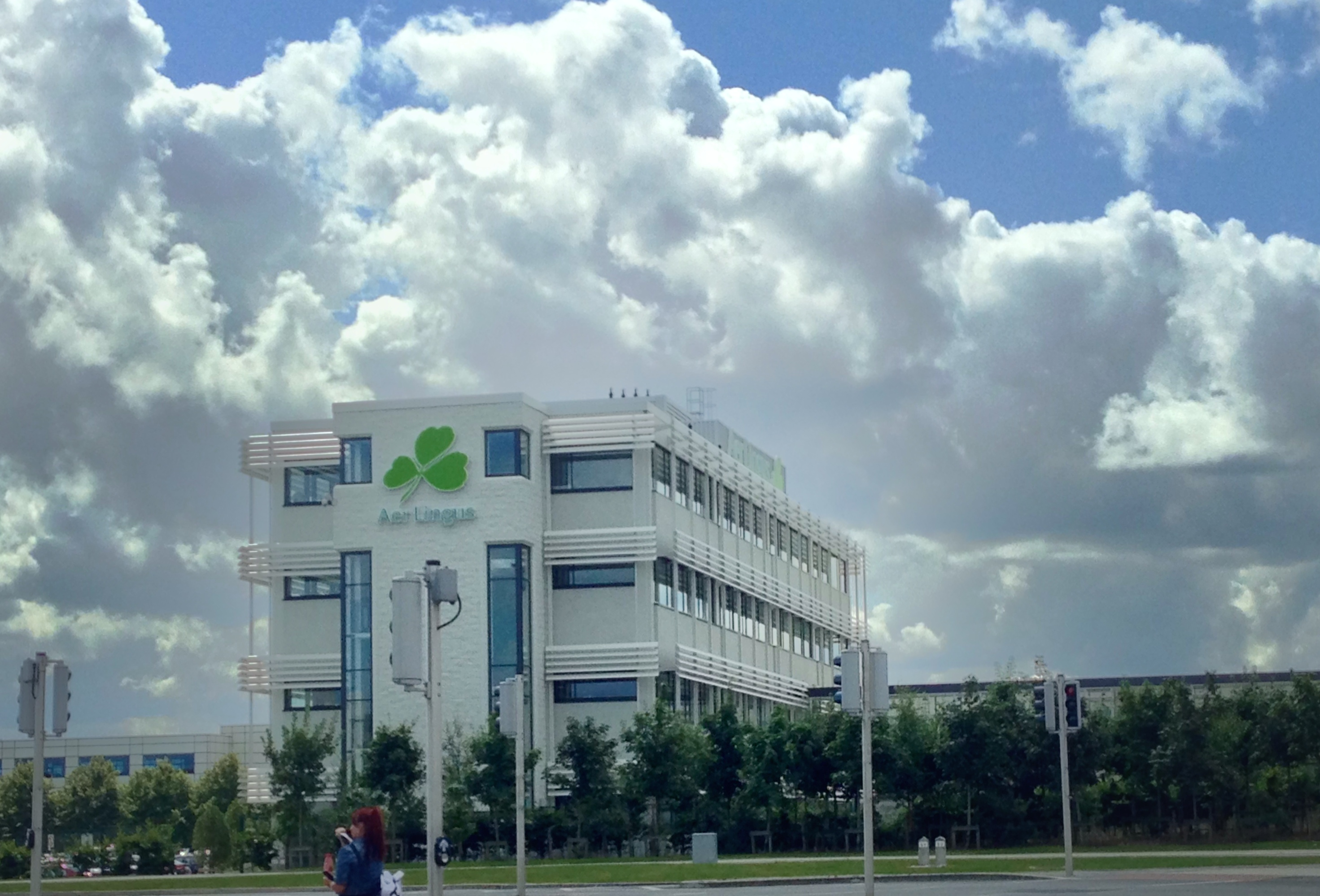 Aer Lingus Building, Dublin Airport, County Dublin, Ireland - August 2014